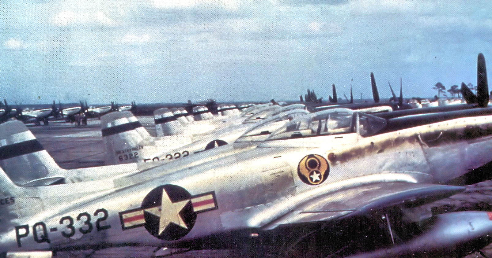 27th Fighter-Escort Wing F-82E Twin Mustangs at Kearney AFB, Nebraska, 1948. F-82E 46-332 in foreground.